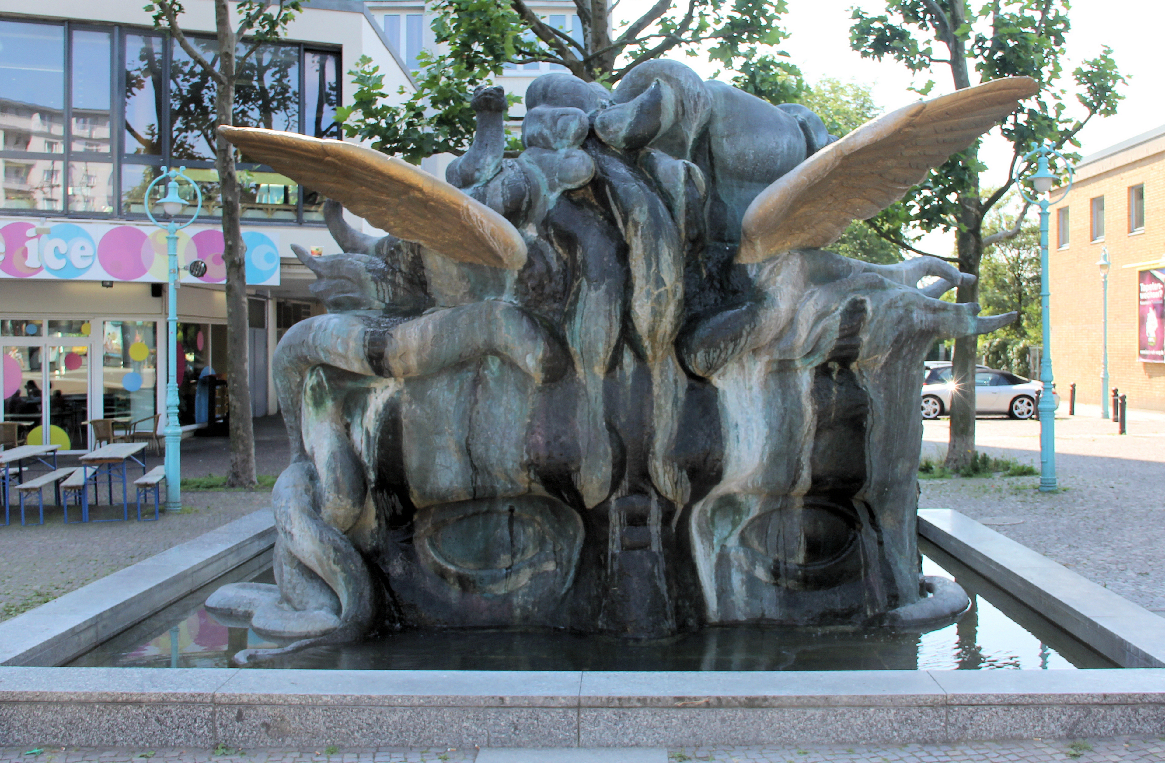 Sculptures, "Medusenhaupt" by Anne und Patrick Poirier 1987, Henriettenplatz, Berlin-Halensee, Germany